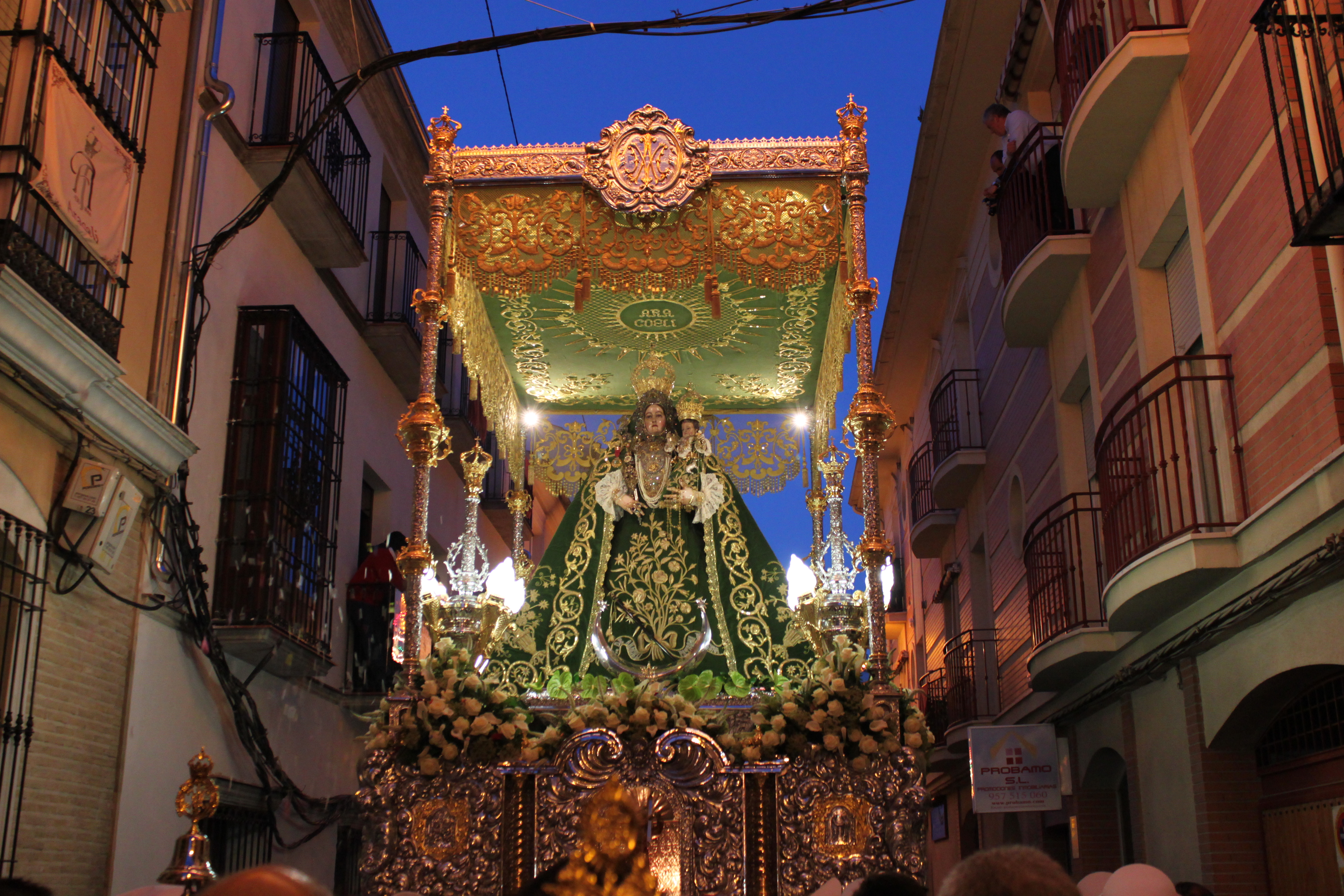 Our Lady of Araceli, of Lucena (Spain), at the procession of her festivity, on the 1st Sunday of May, is in Antonio Eulate street at dusk. 450th anniversary of her coming to Lucena from Rome.